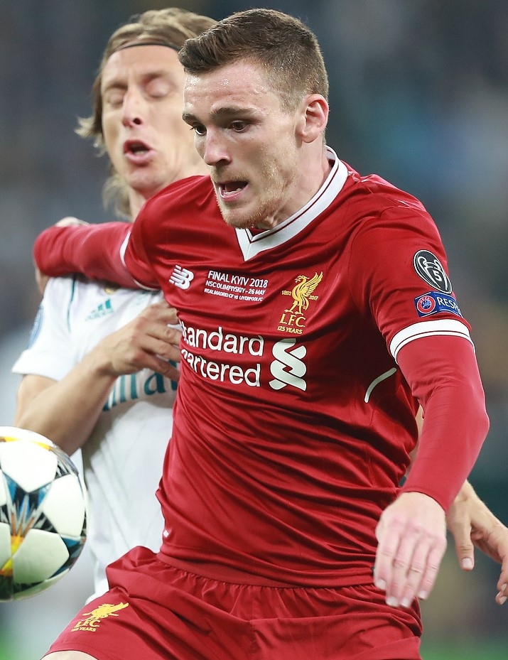 Andrew Robertson vies for the ball with Luka Modrić